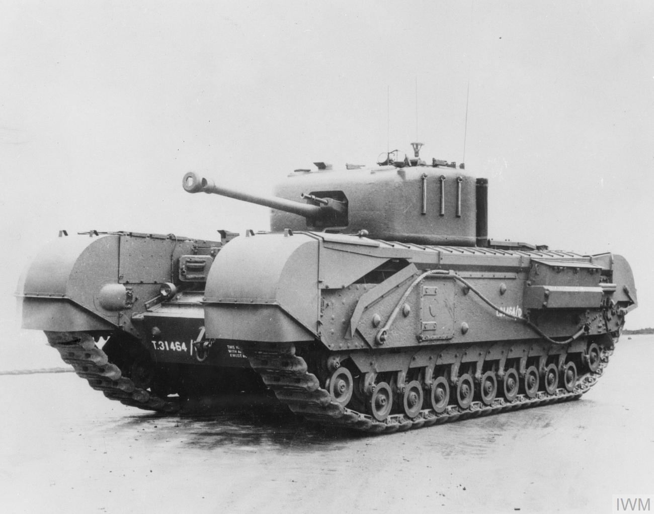 Tanks and Afvs of the British Army 1939-45 Infantry tank Mk IV Churchill VI (A22)